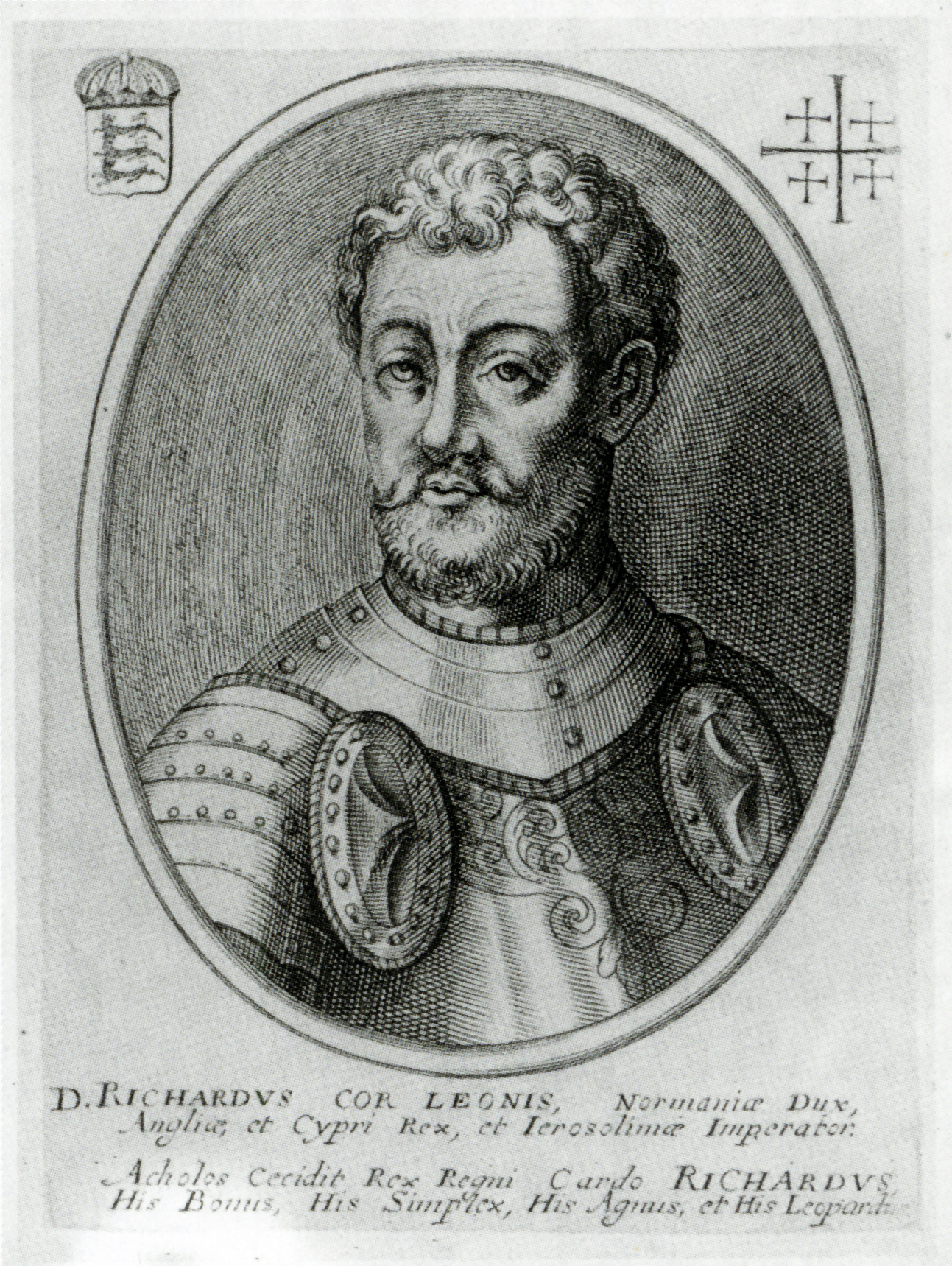 This image is a JPEG version of the original PNG image at File: King Richard I.png. Generally, this JPEG version should be used when displaying the file from Commons, in order to reduce the file size of thumbnail images. However, any edits to the image should be based on the original PNG version in order to prevent generation loss, and both versions should be updated. Do not make edits based on this version. See here for more information. Fictitious portrait of King Richard I after unknown artist, 17th century. National Portrait Gallery: NPG D7666 While Commons policy accepts the use of this media, one or more third parties have made copyright claims against Wikimedia Commons in relation to the work from which this is sourced or a purely mechanical reproduction thereof. This may be due to recognition of the "sweat of the brow" doctrine, allowing works to be eligible for protection through skill and labour, and not purely by originality as is the case in the United States (where this website is hosted). These claims may or may not be valid in all jurisdictions. As such, use of this image in the jurisdiction of the claimant or other countries may be regarded as copyright infringement. Please see Commons:When to use the PD-Art tag for more information. See User:Dcoetzee/NPG legal threat for original threat and National Portrait Gallery and Wikimedia Foundation copyright dispute for more information. This tag does not indicate the copyright status of the attached work. A normal copyright tag is still required. See Commons:Licensing for more information.